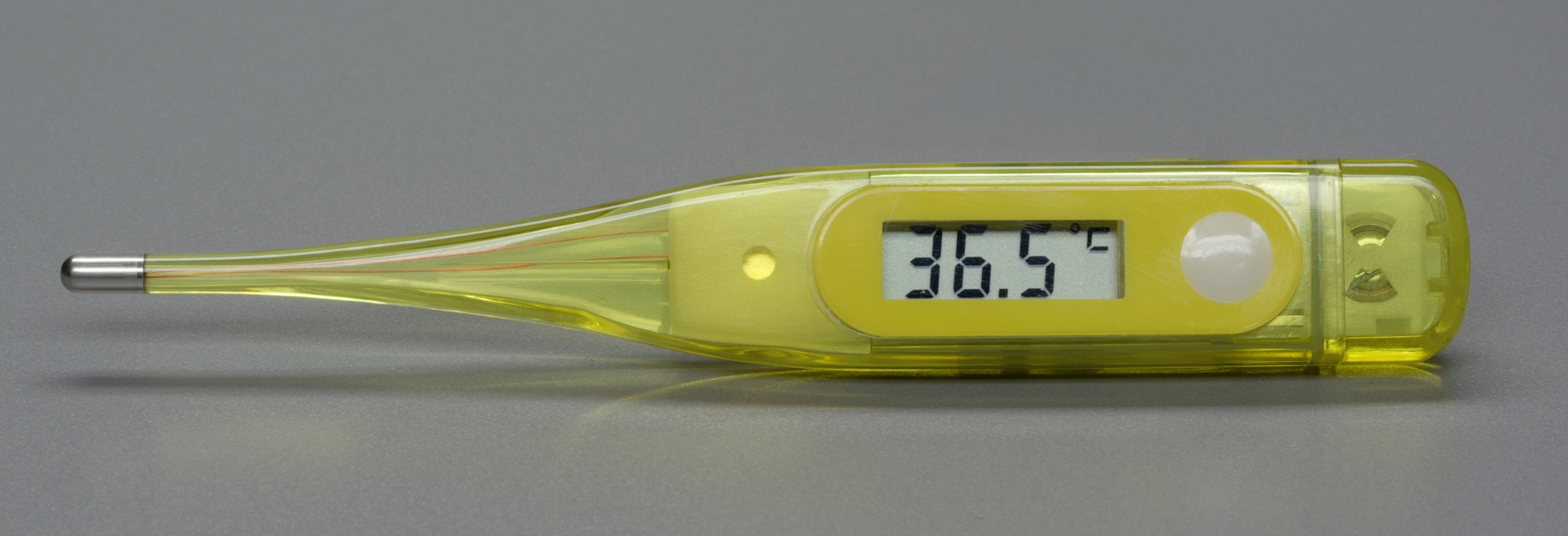 Electronic medical thermometer.